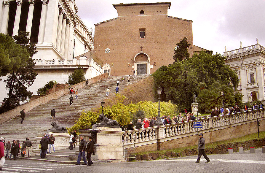 Santa Maria in Aracoeli (façade), Rome.